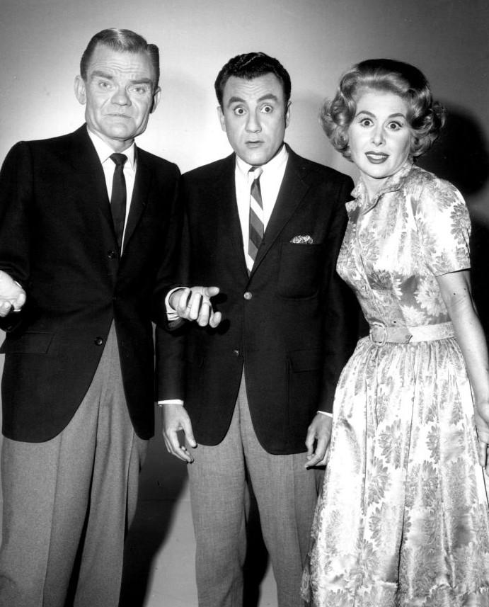 Photo of musician Spike Jones, actor/comedian Bill Dana and Jones' wife, singer Helen Grayco, from the television program The Spike Jones Show. Jones had a summer replacement program for a few years; Dana was a performer, the producer and writer for the program.